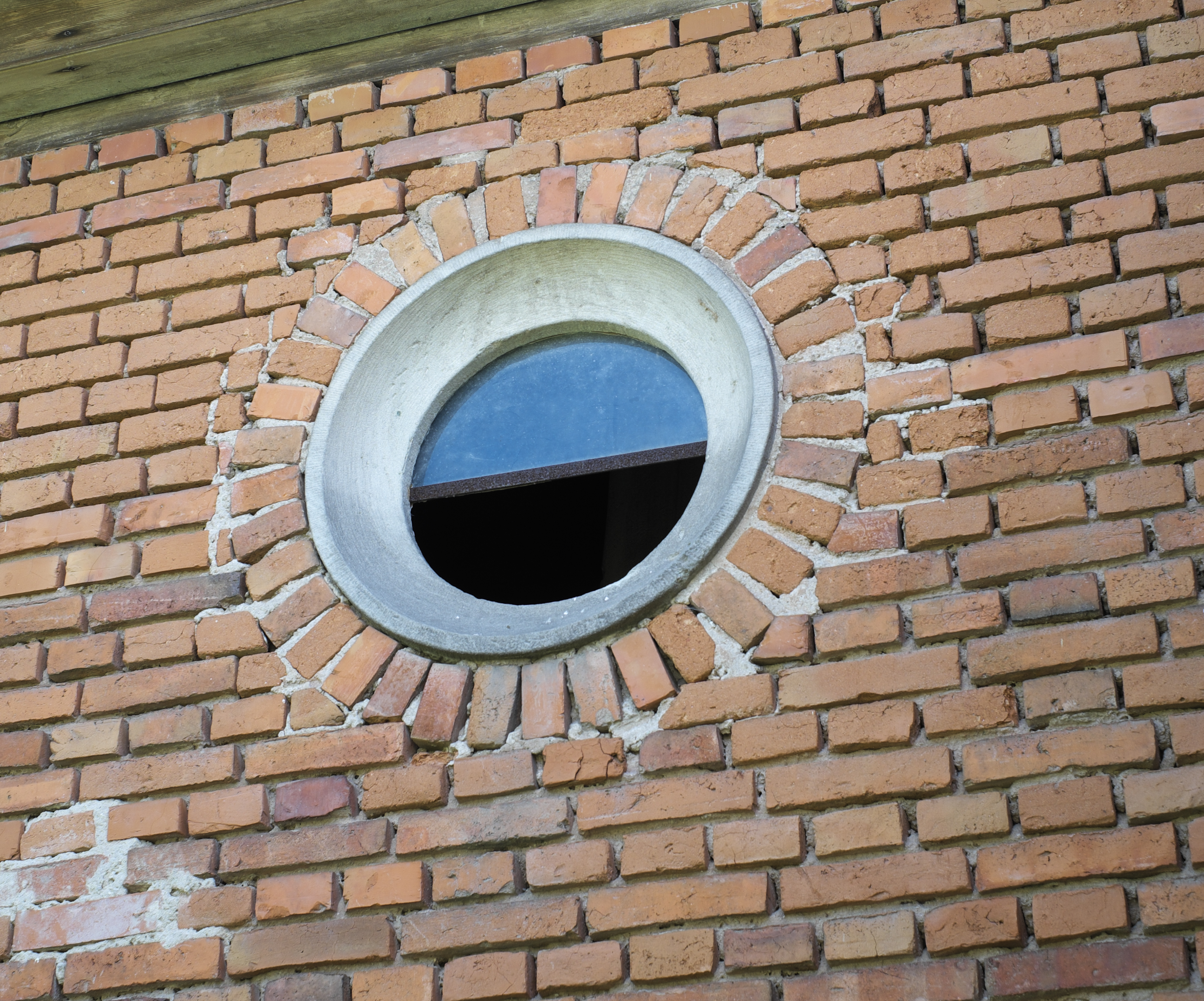 Detail of the former synagogue in Kleinbardorf, county Rhön-Grabfeld, Lower Franconia, Bavaria, Germany